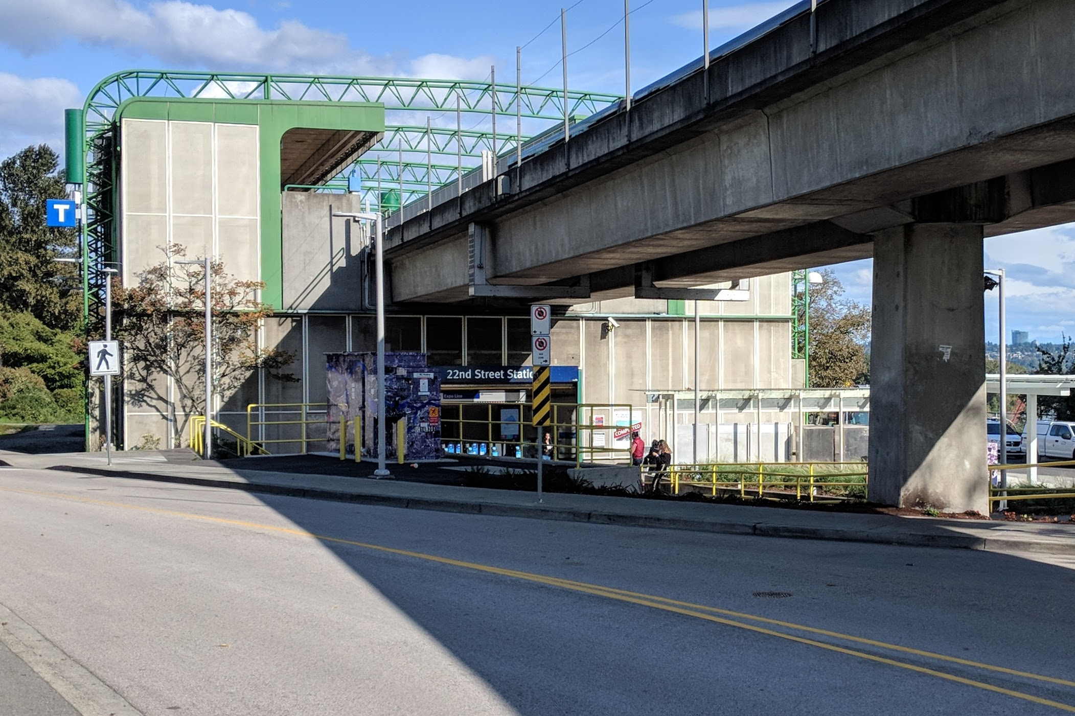 22nd Street station viewed from the west. Photo taken in September 2019.